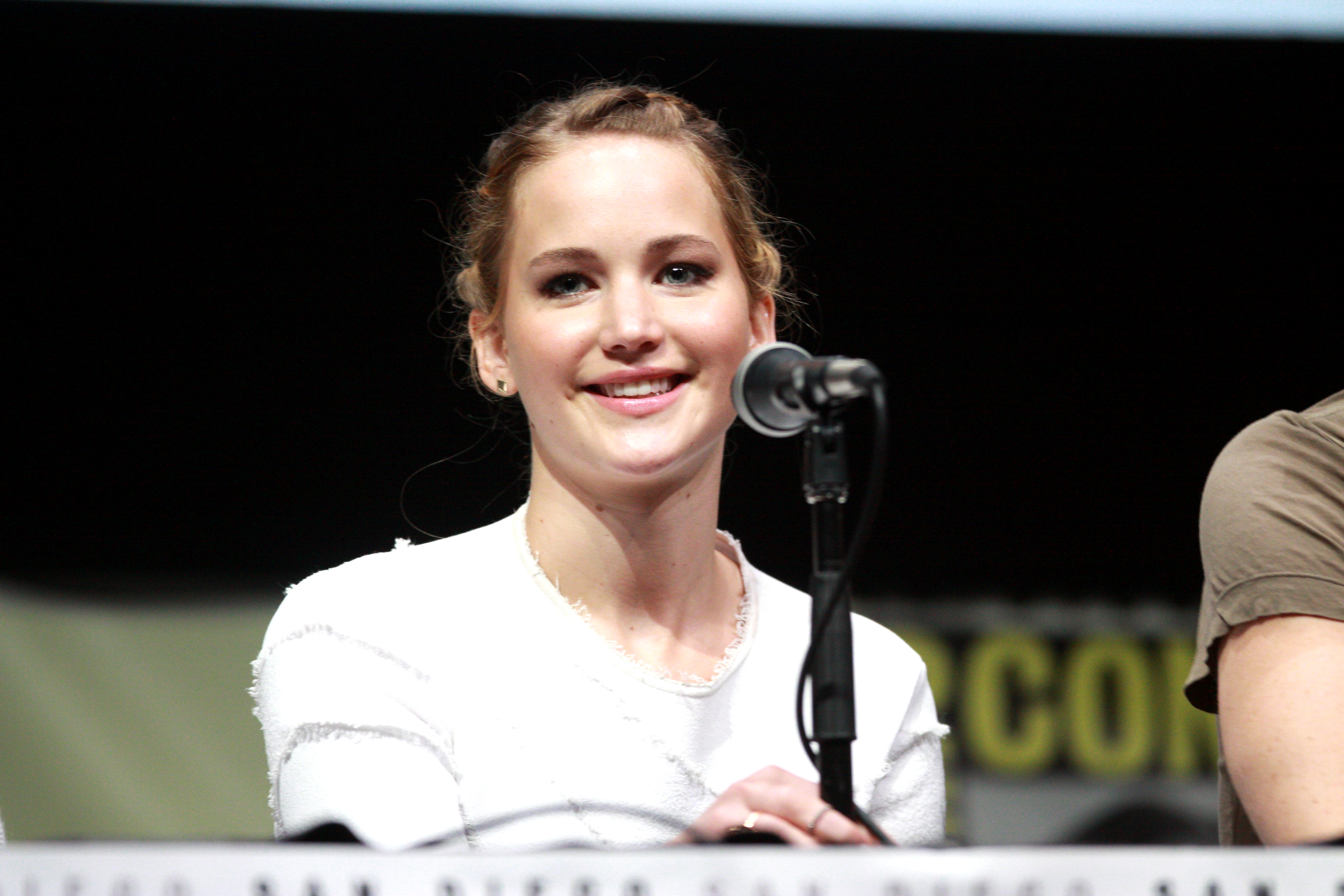 Jennifer Lawrence speaking at the 2013 San Diego Comic Con International, for "X-Men: Days of Future Past", at the San Diego Convention Center in San Diego, California.